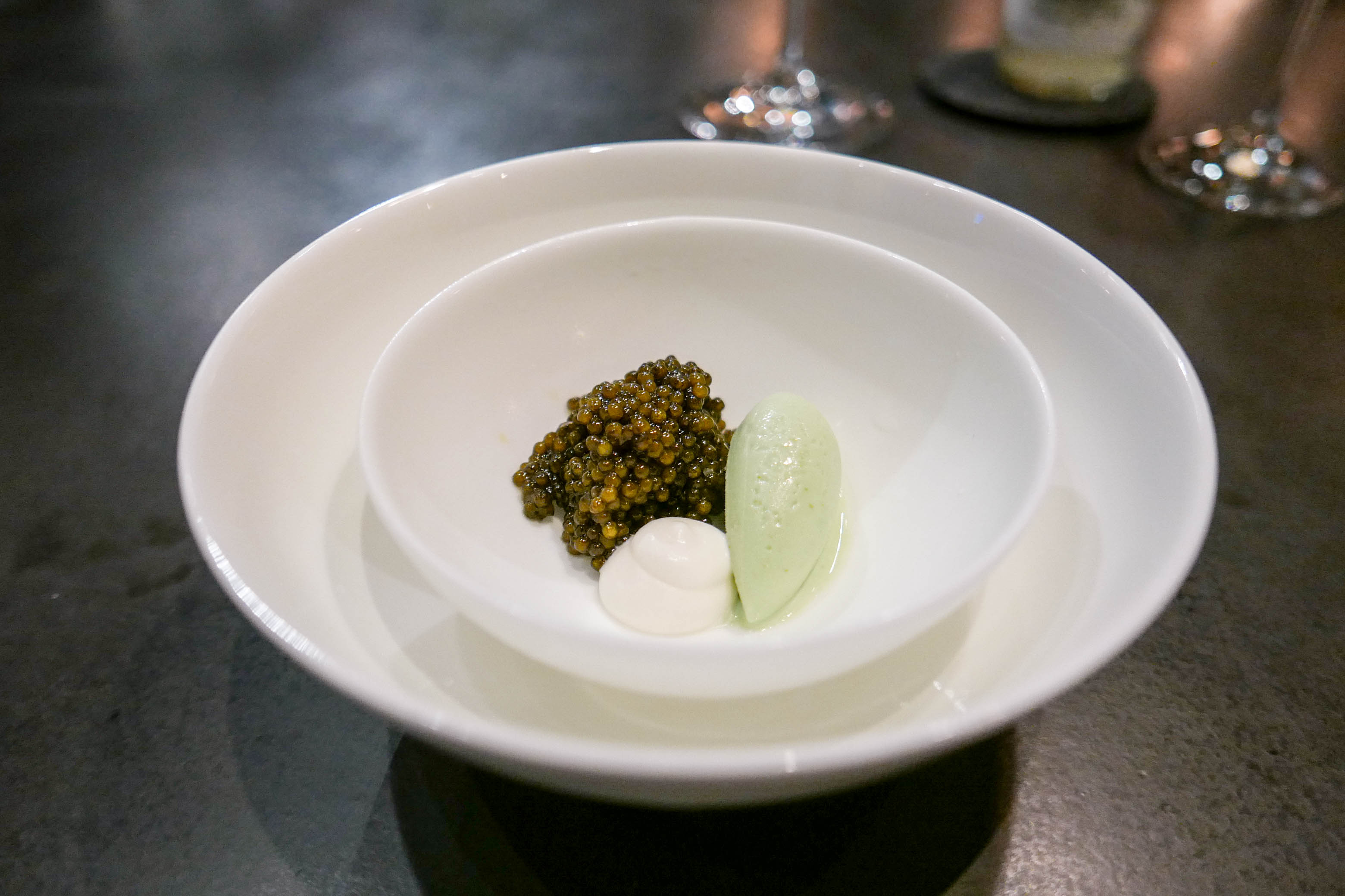 Atera / New York / 07/21/17